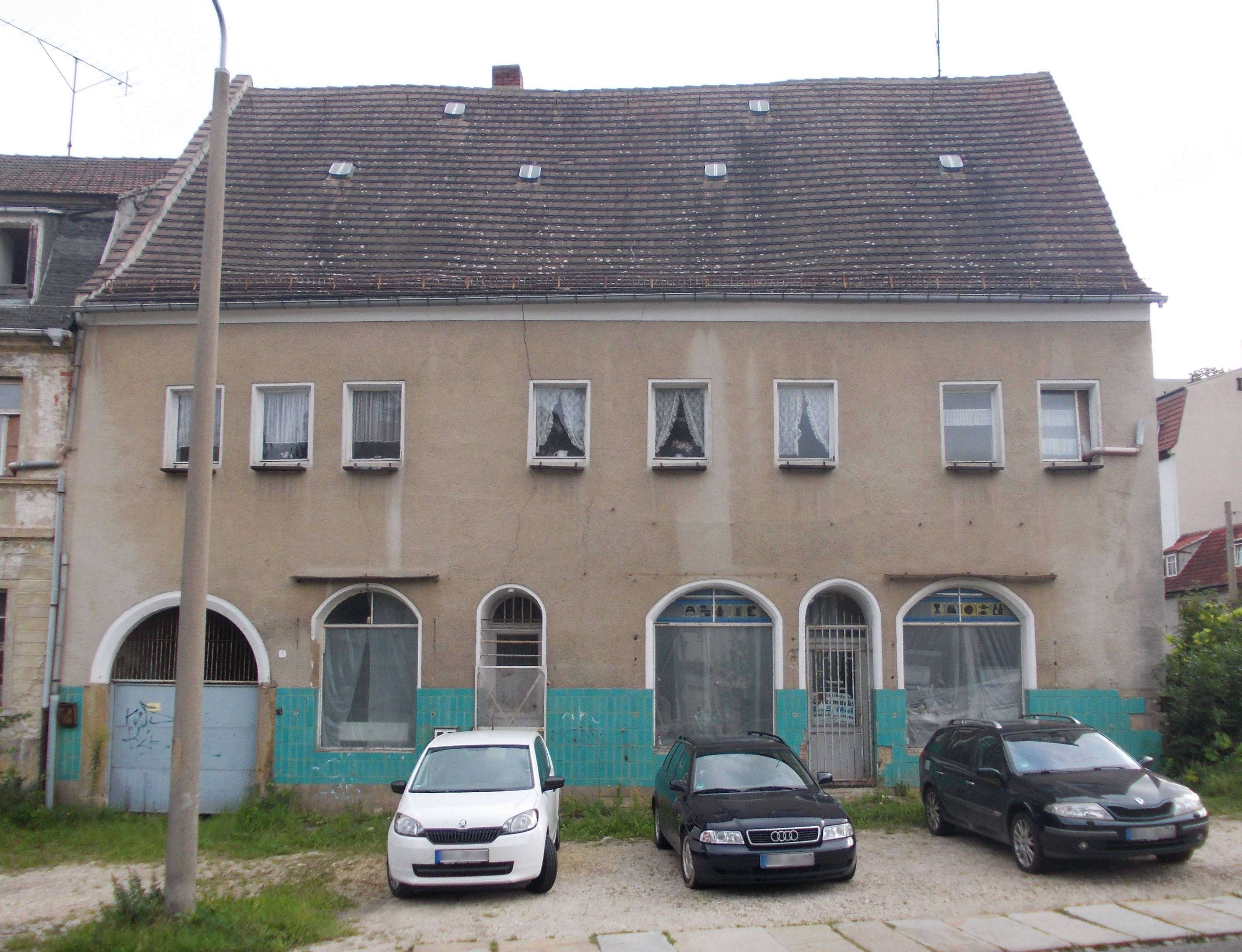 No. 3, Brühl in Zeitz (district: Burgenlandkreis, Saxony-Anhalt)